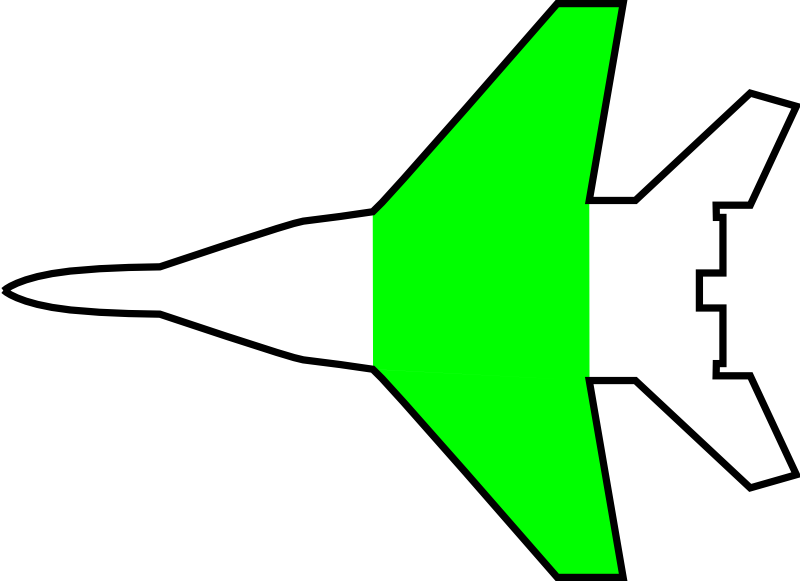 Schematic of the wing area of an airplane